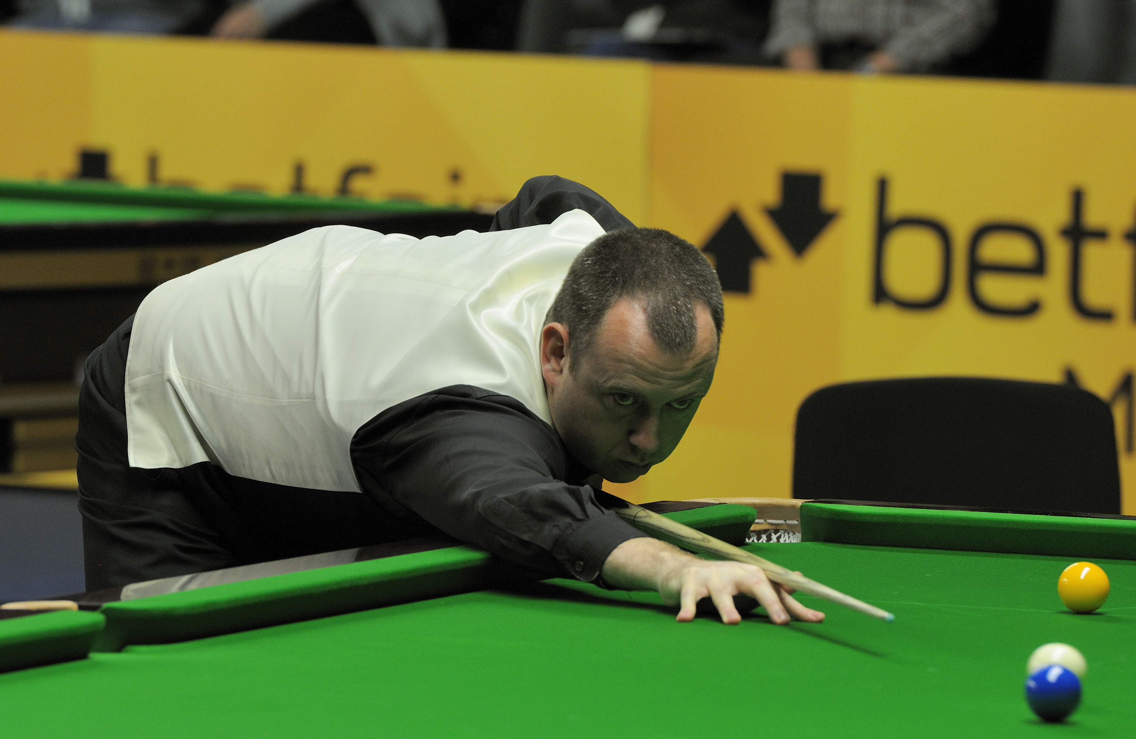 Picture taken in Berlin during the Snooker German Masters in 2013. Mark Williams.